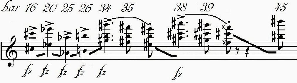 Chopin Etude Op. 10, No. 4: contour line of sforzati bars 16 - 45 (after Hugo Leichtentritt)